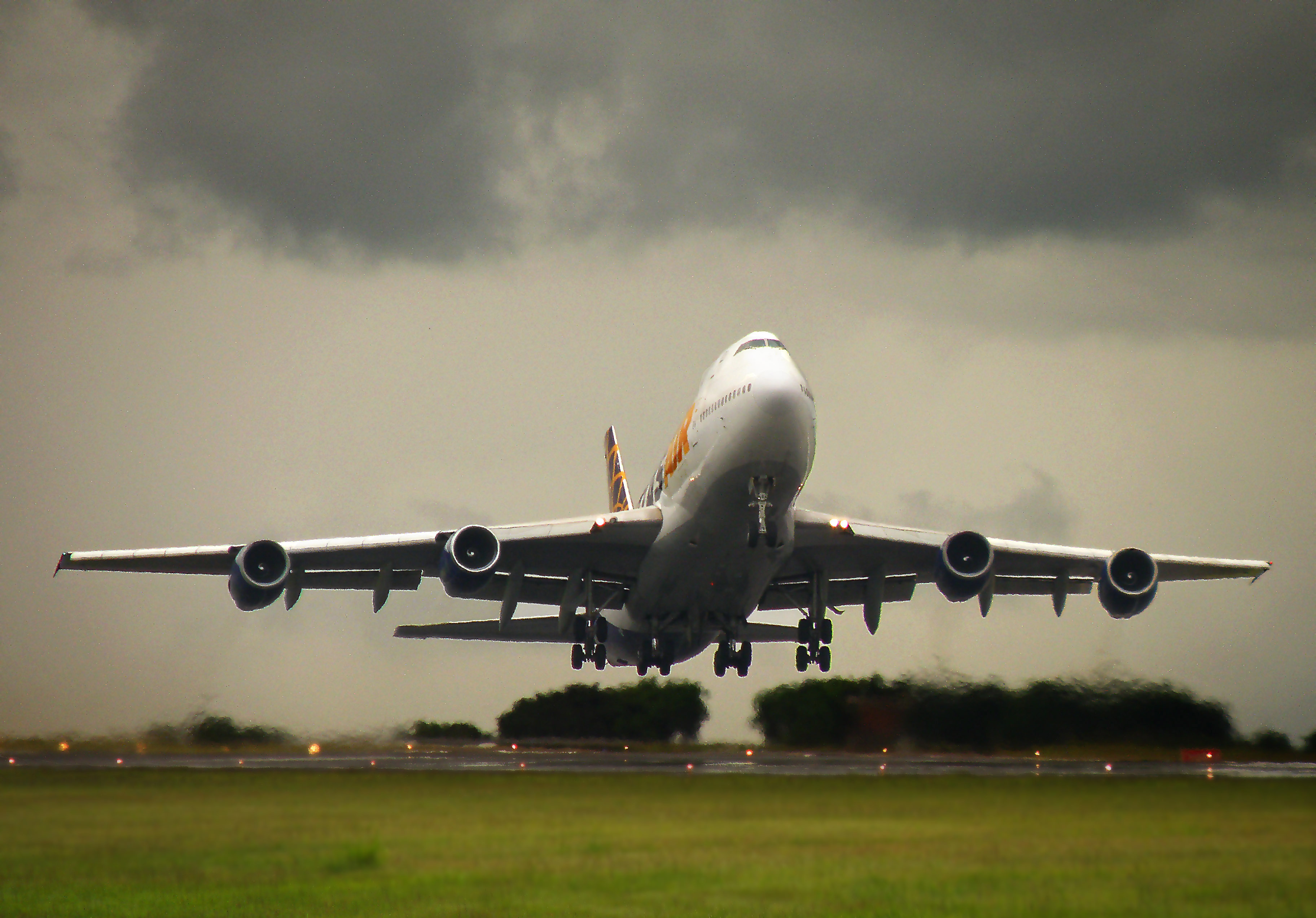 ATLAS AIR t/o from MROC. Bad, bad weather.